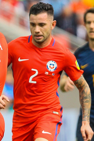 Chile VS. Australia 1 - 1, 25 June 2017